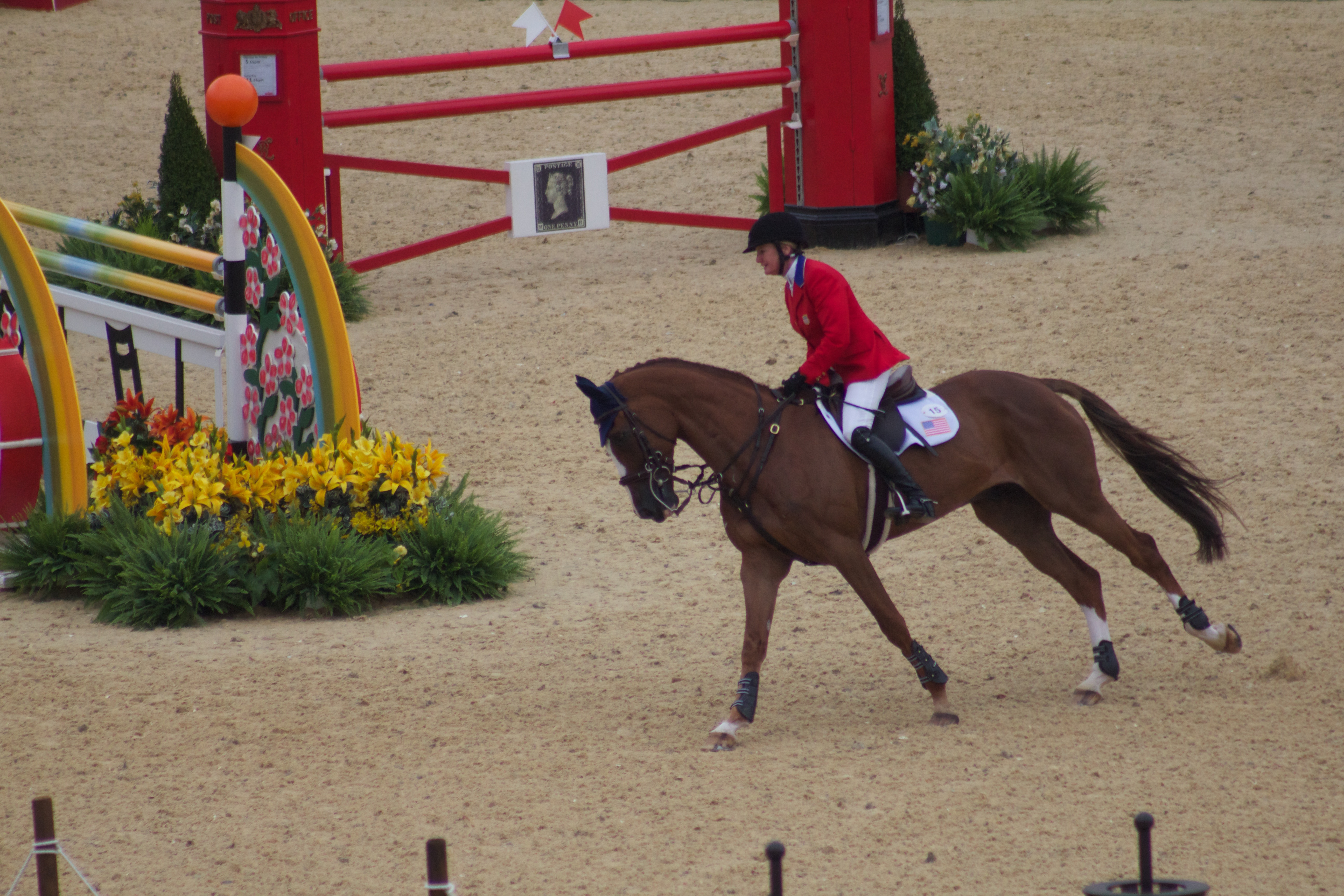 Equestrian sports at the 2012 Summer Olympics